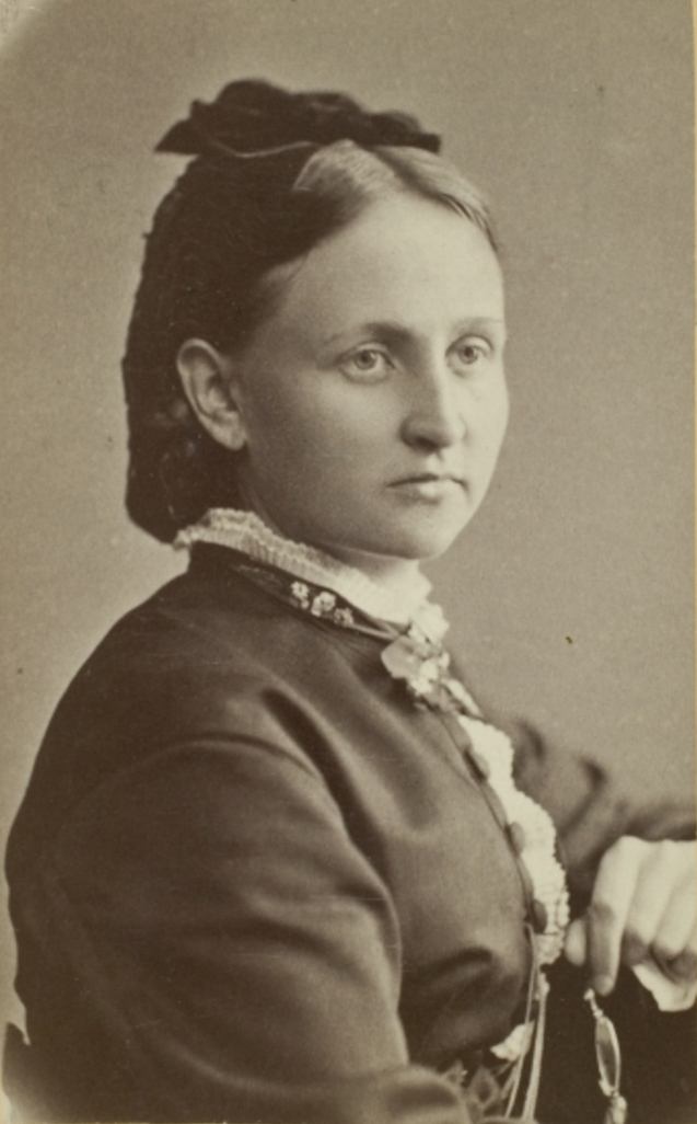 Photograph of the Finnish painter Fanny Churberg (1845–1892).